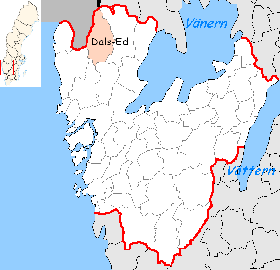 Dals-Ed Municipality in Västra Götaland County Designed by me. Mere outlines are a PD source from